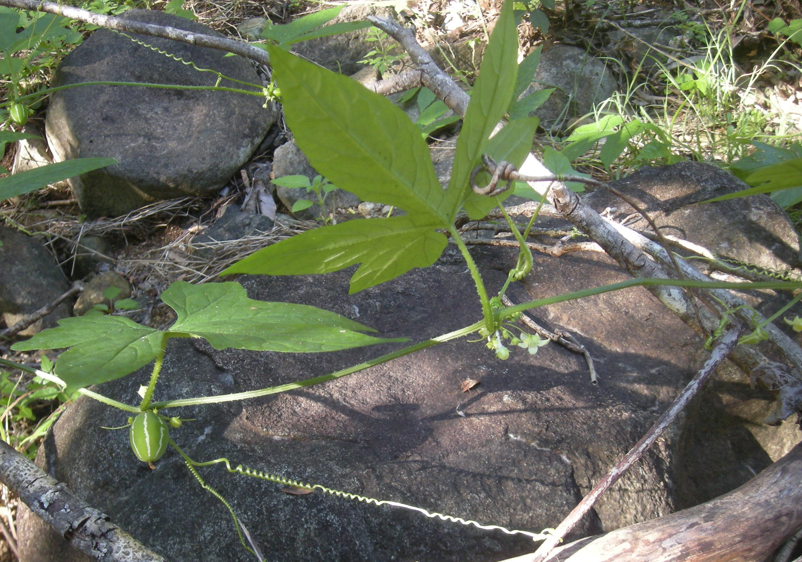 Diplocyclos palmatus — fruit, flowers and foliage. Native to areas of Malesia and Australasia.